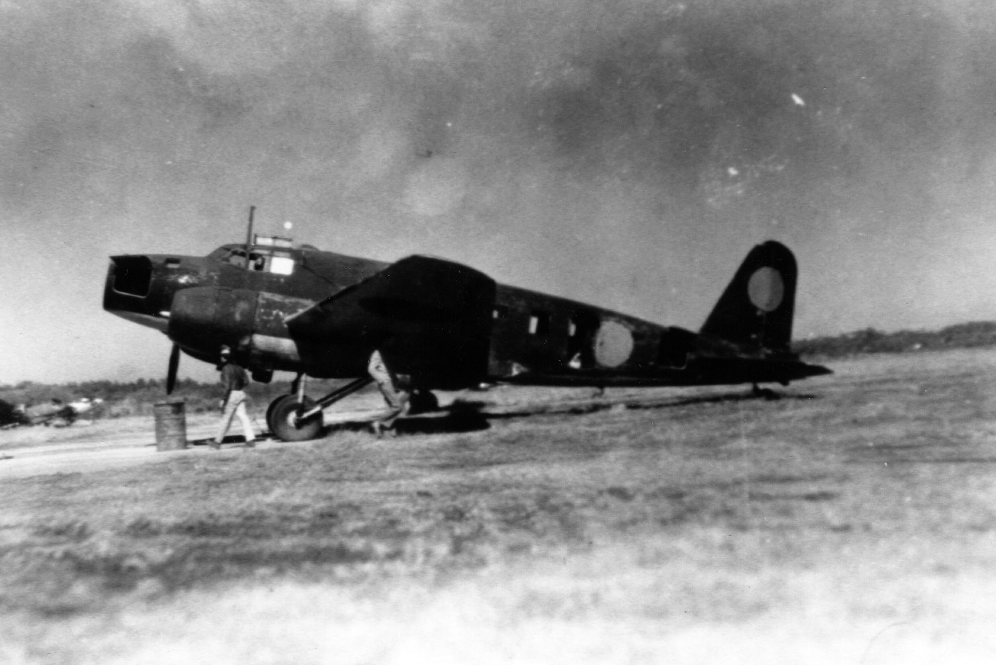 Mitsubishi Ki-57 "Topsy" wrecked on Honshu, late 1945.